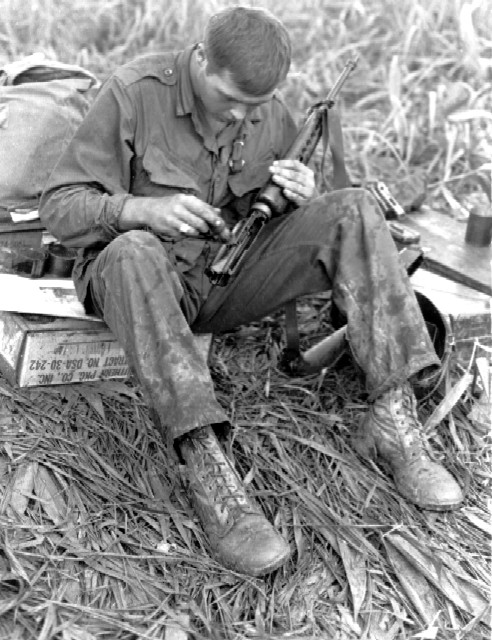 PFC John Henson (Columbia, South Carolina) of the 1st Battalion, 327th Infantry, 101st Airborne Division, cleans his XM16E1 rifle while on an operation 30 miles west of Kontum, Vietnam. 12 July 1966